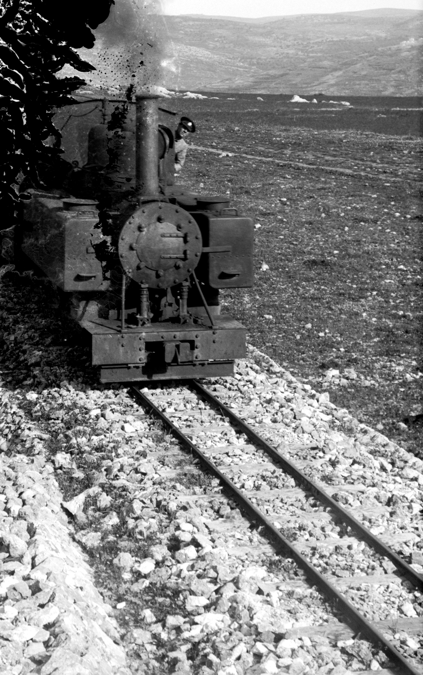 Rear view of military train curving around track near Tomb of the Judges, 1918; [View of train on track, near Tomb of Judges?].